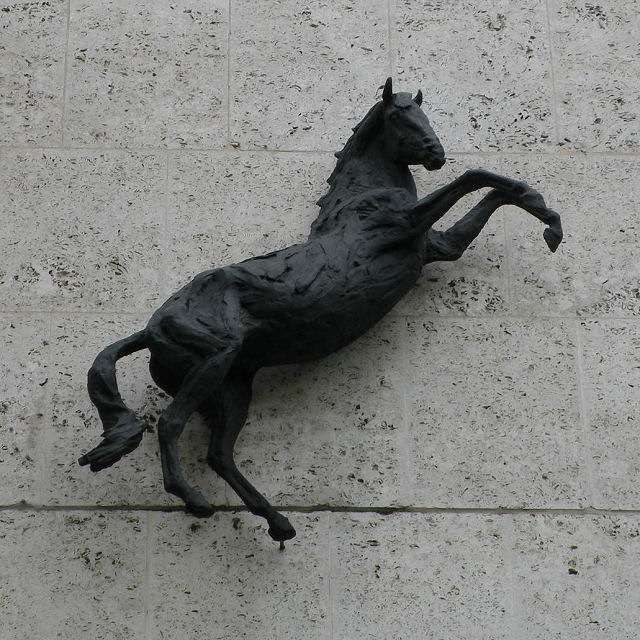 Untitled sculpture